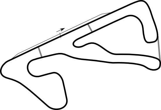 Layout of Autodrómo Pedro Cofiño in Escuintla, Guatemala